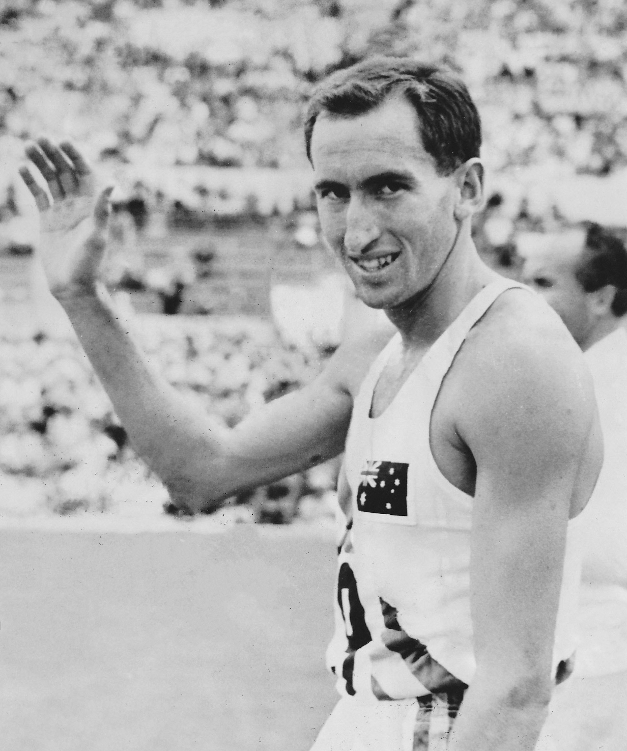 Herb Elliott, 1960 Olympics